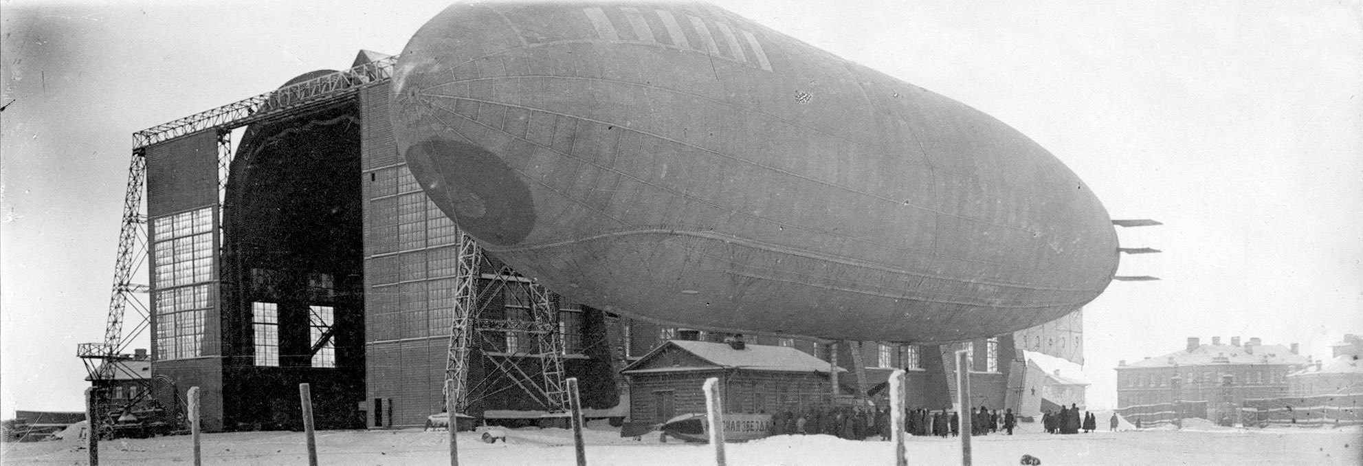 Airship "Krasnaya Zvezda" in Petrograd, Russia (1921)